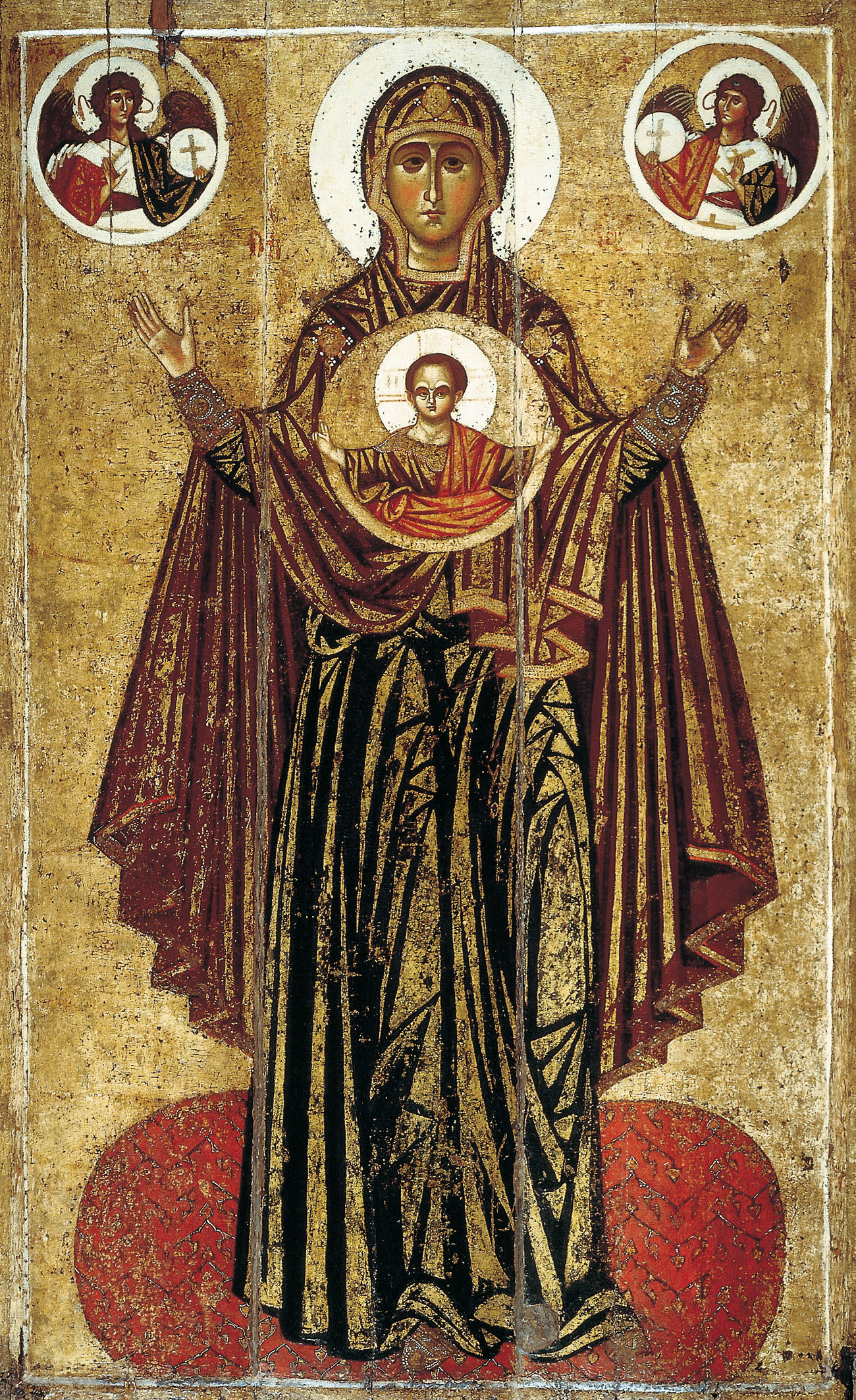 13th-century icon of the Great Panagia (Our Lady of the Sign) from the Saviour Minster in Yaroslavl.